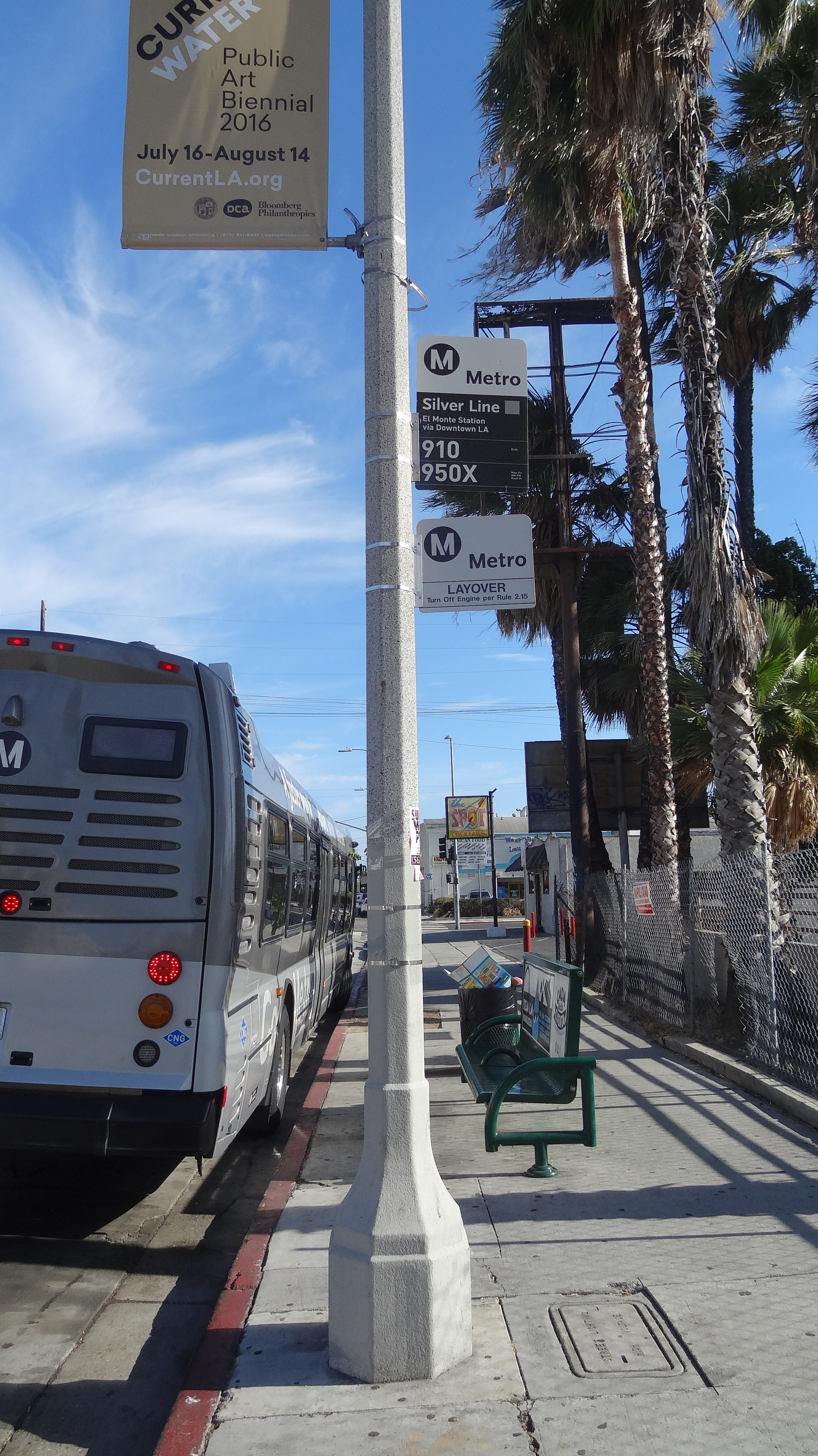 Metro Silver Line 950X Express layover in San Pedro, Pacific and 21 Street